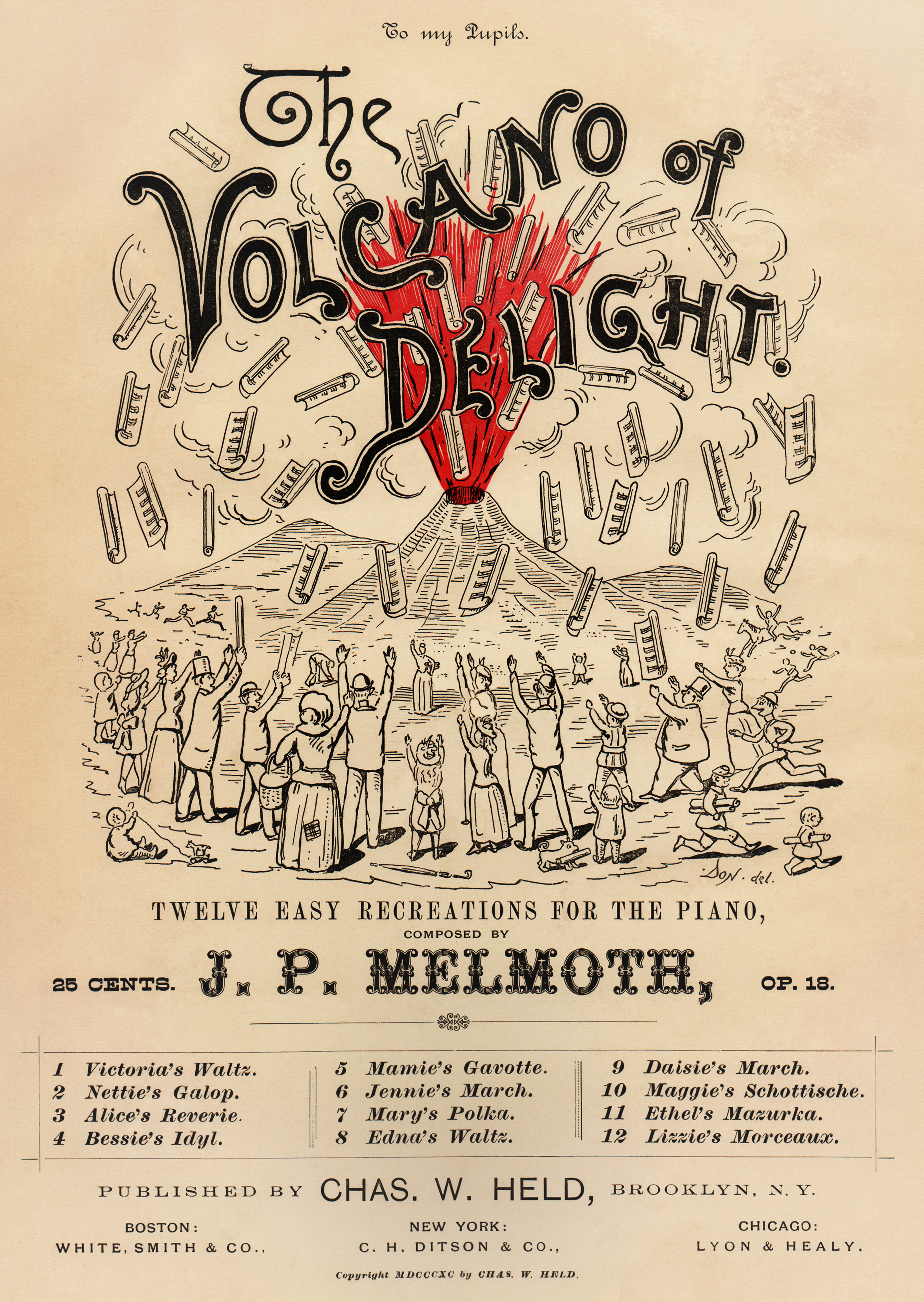 Cover of the sheet music: Volcano of Delight, by J.P. Melmoth